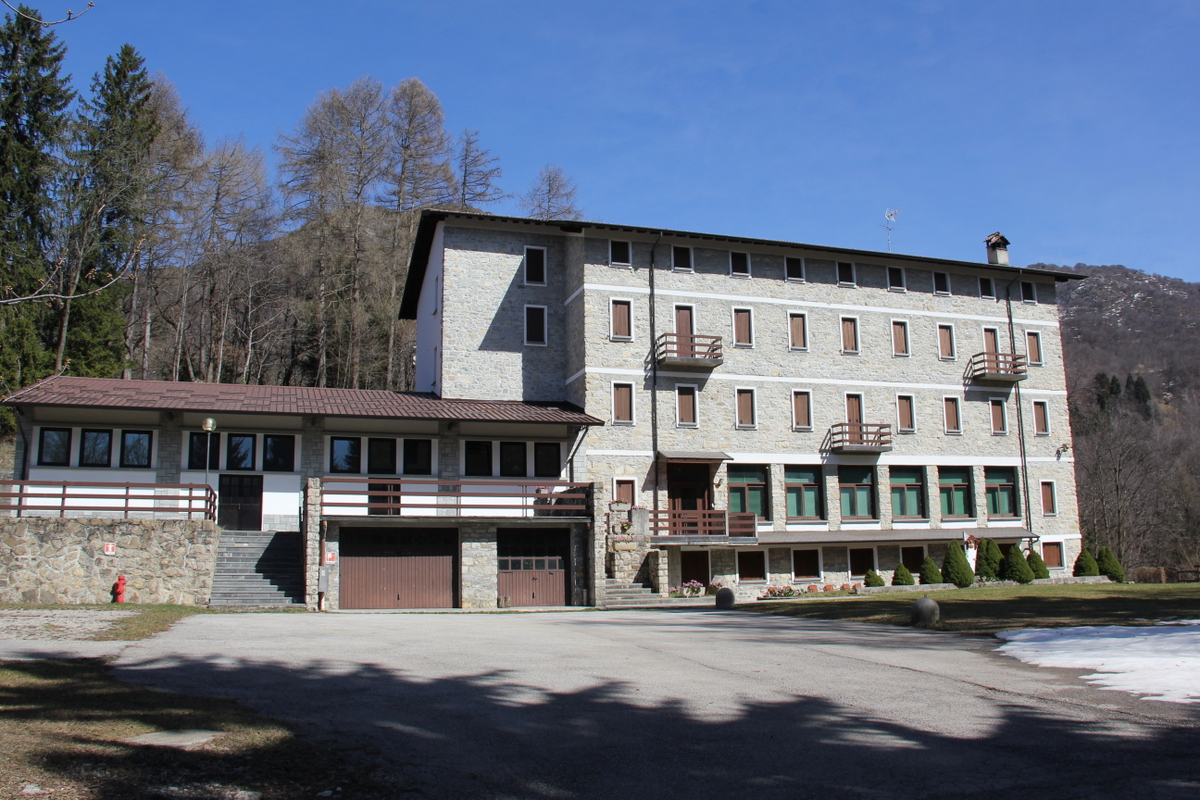 Esino Lario.